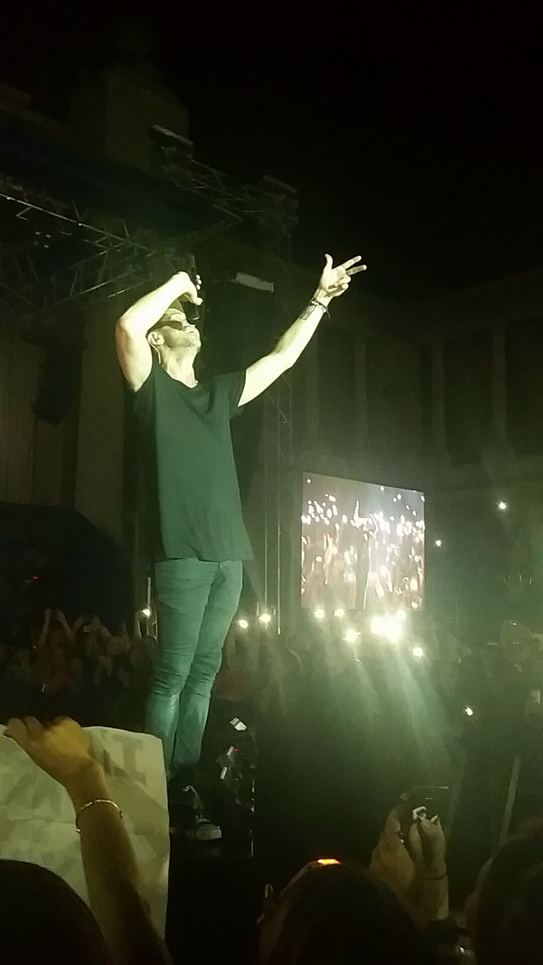 Ryan Tedder in concert at Arenele Romane, Bucharest during the Native Tour by American pop rock band OneRepublic.